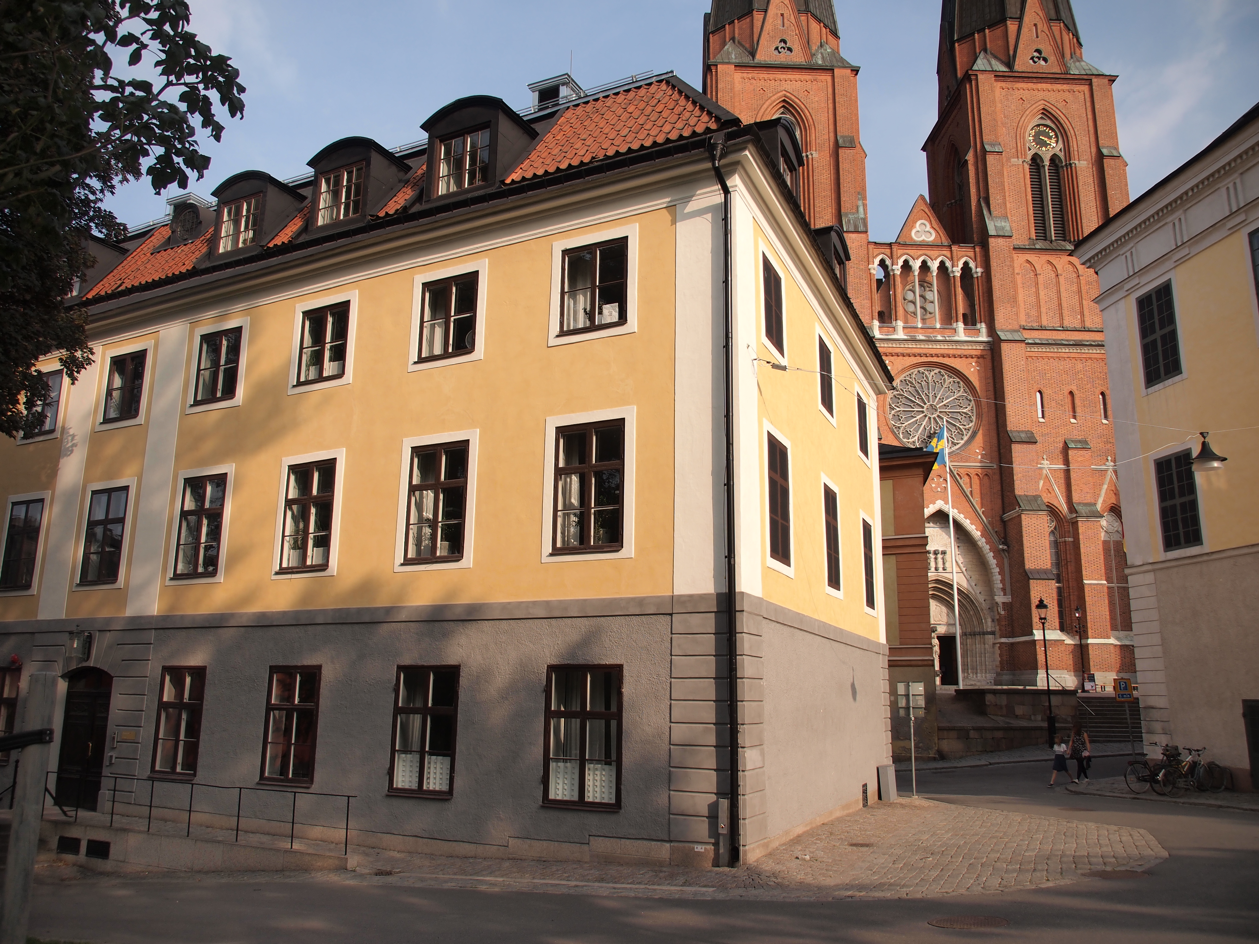 Ekermanska huset from the west with the cathedral in the background.